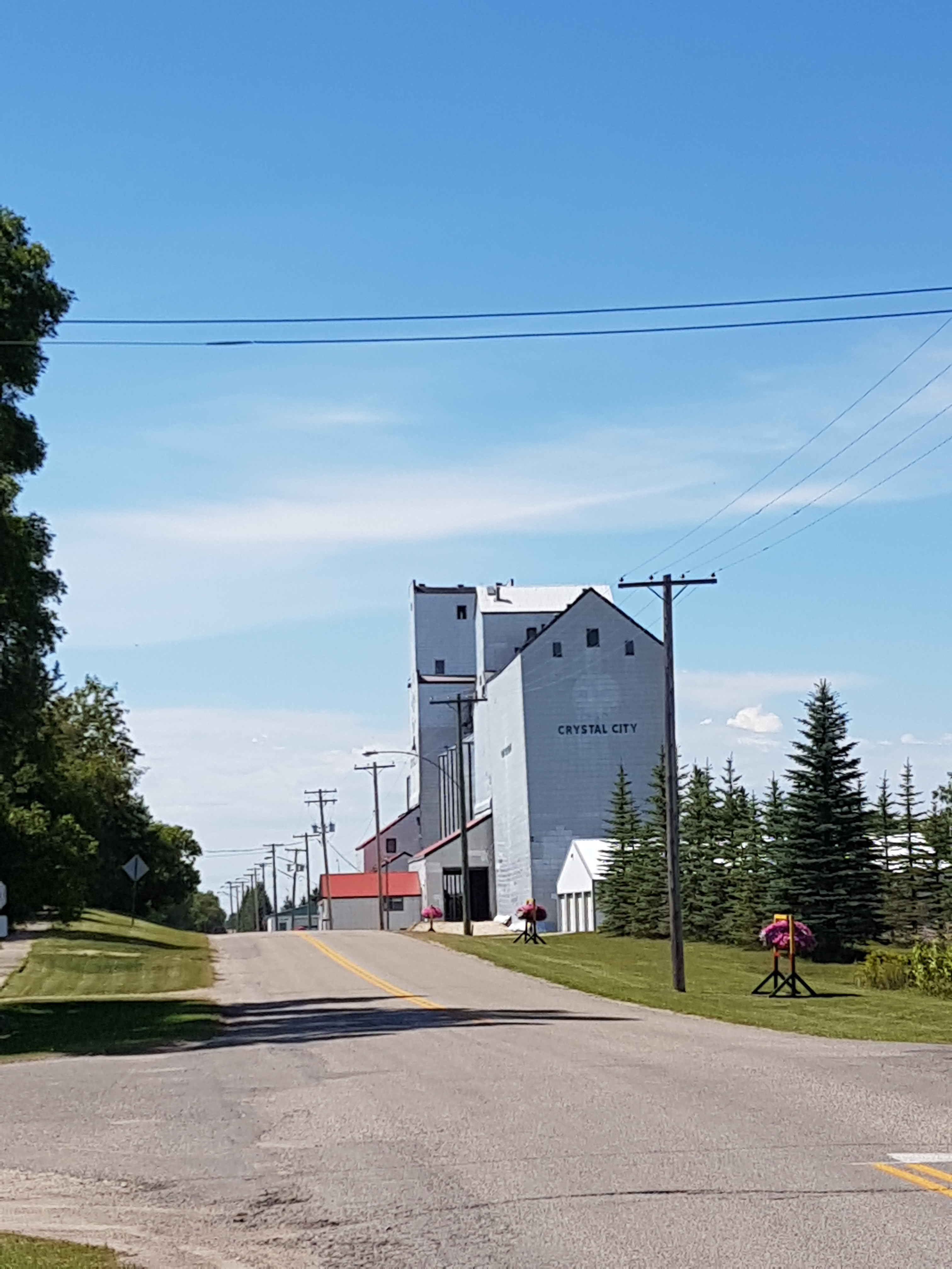 Grain elevators in Crystal City, Manitoba